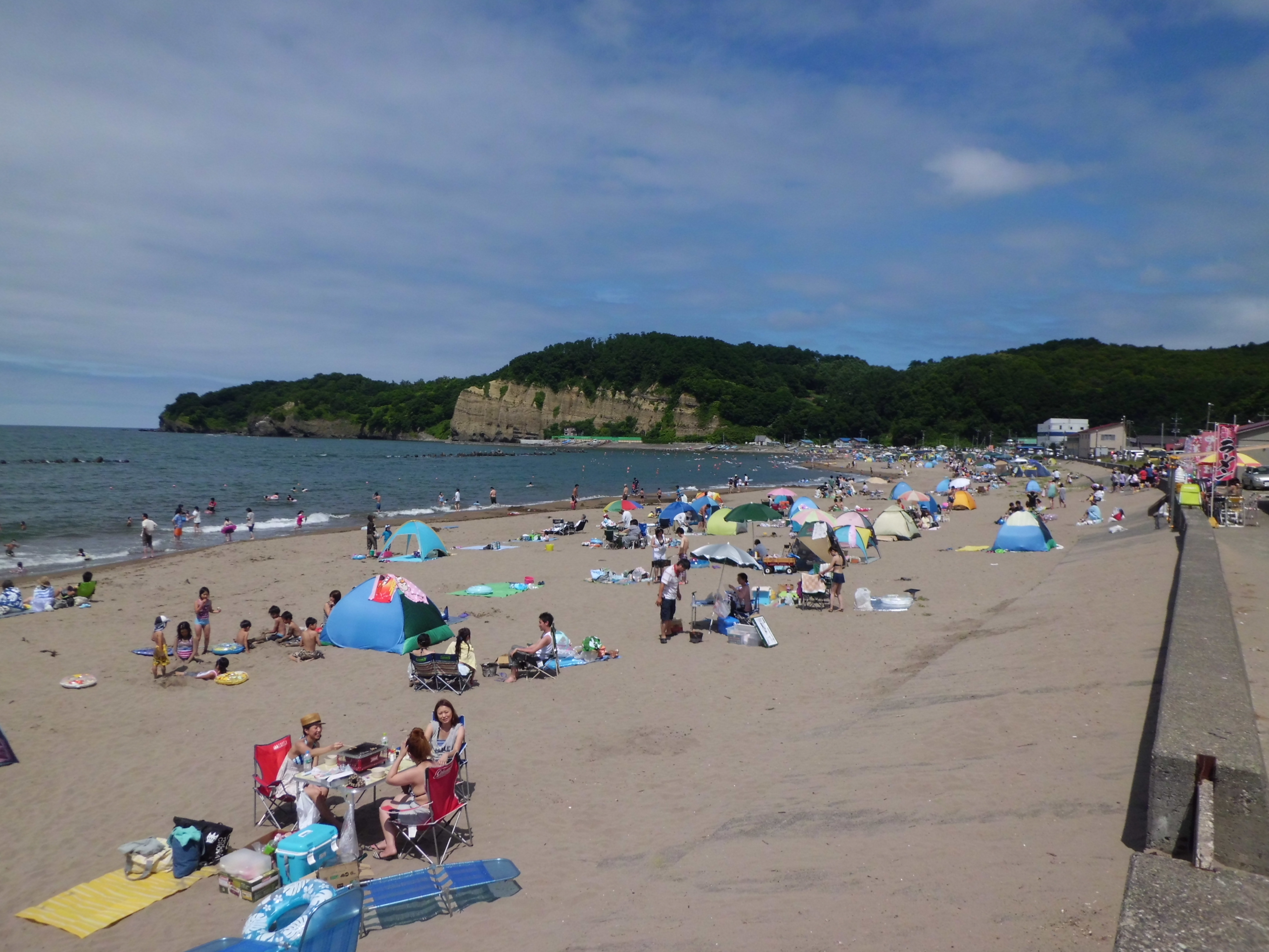 Ranshima beach in Otaru city, Hokkaido, Japan.